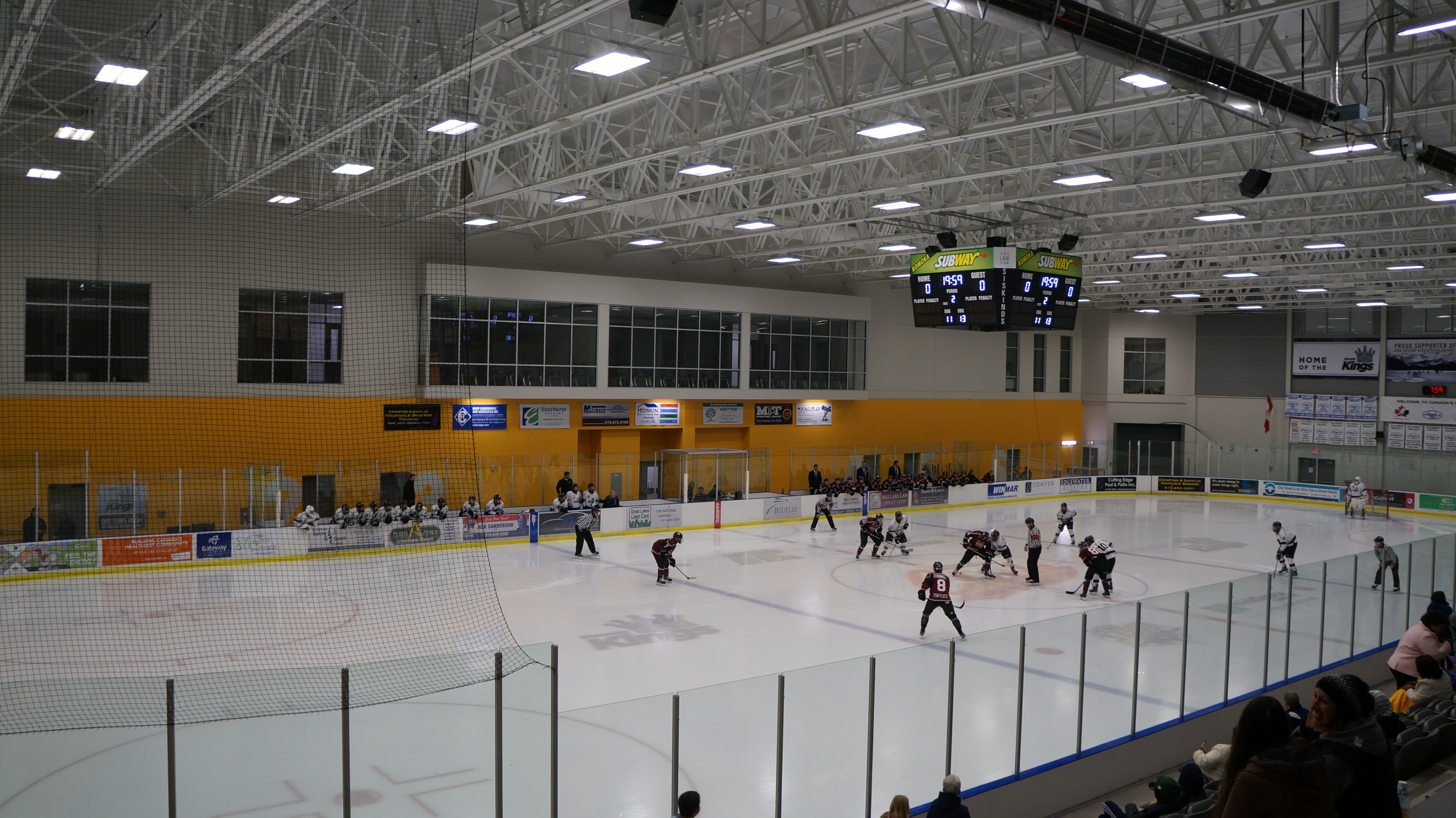 The Komoka Kings hosting the Chatham Maroons at the Komoka Wellness Centre in Komoka, Ontario on October 13, 2018.